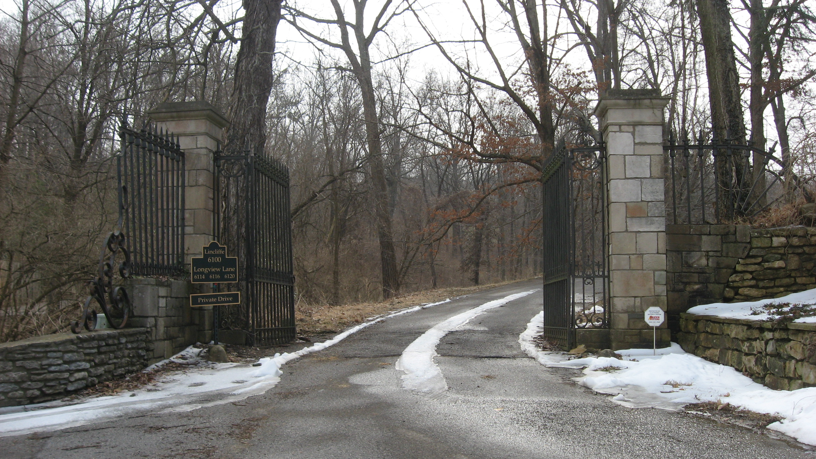 Driveway to the Lincliff estate, located at 6100 Longview Lane in Glenview, Kentucky, United States. Built in 1911, it is listed on the National Register of Historic Places.